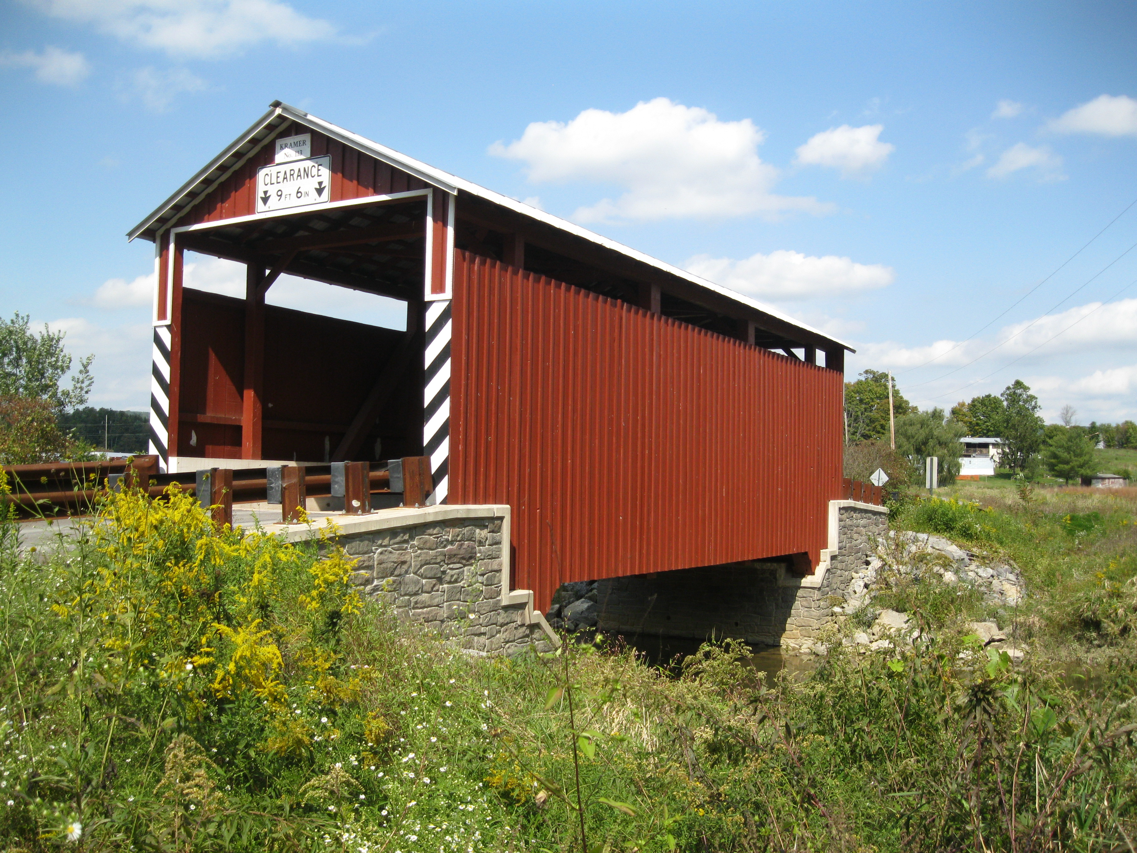 Kramer Covered Bridge No. 113 built in 1881 over Mud Run in Greenwood Township in Columbia County, Pennsylvania in the United States.